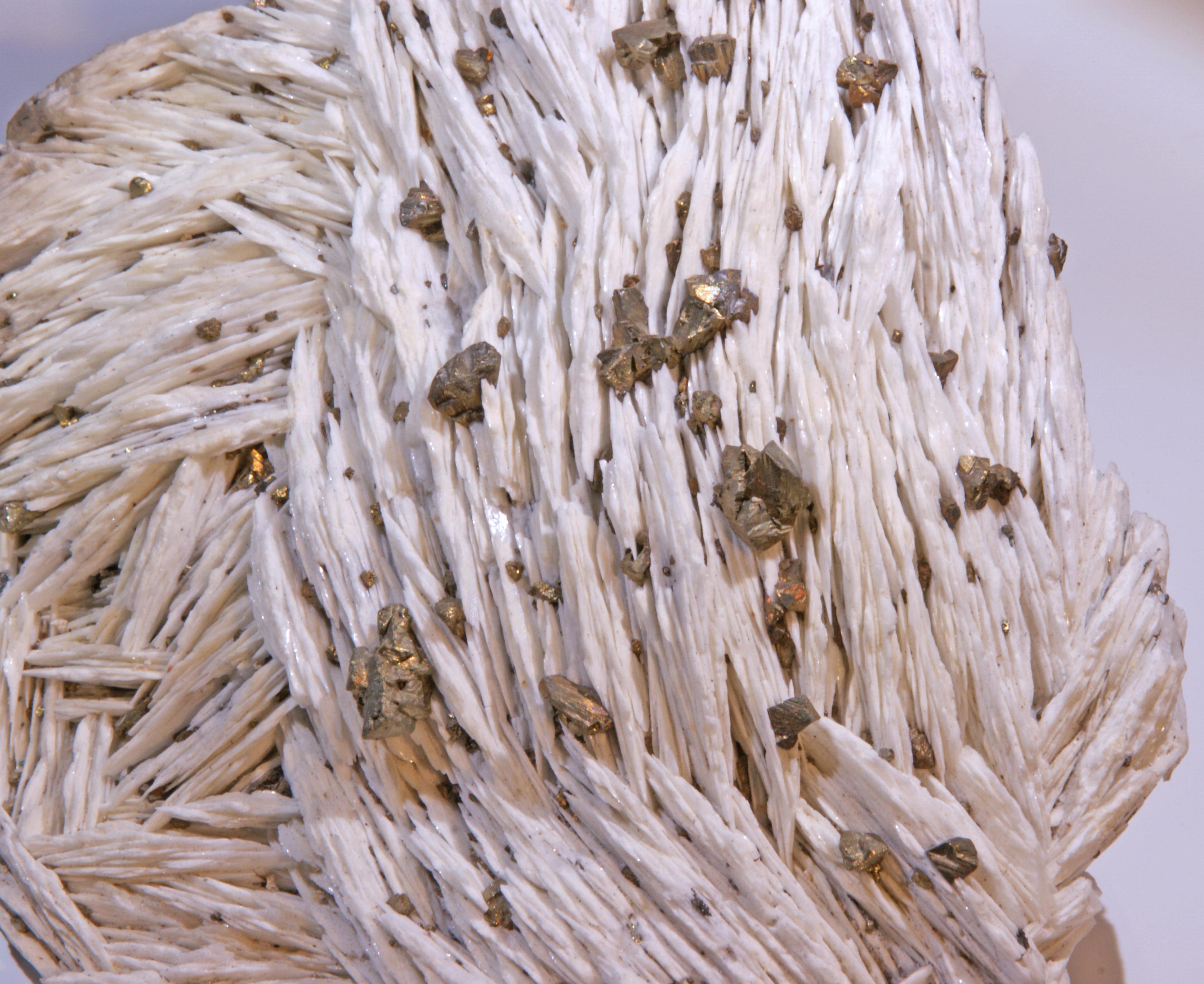 Chalcopyrite on Barite from Schwerspatgrube Dreislar - Dreislar - Sauerland - Germany